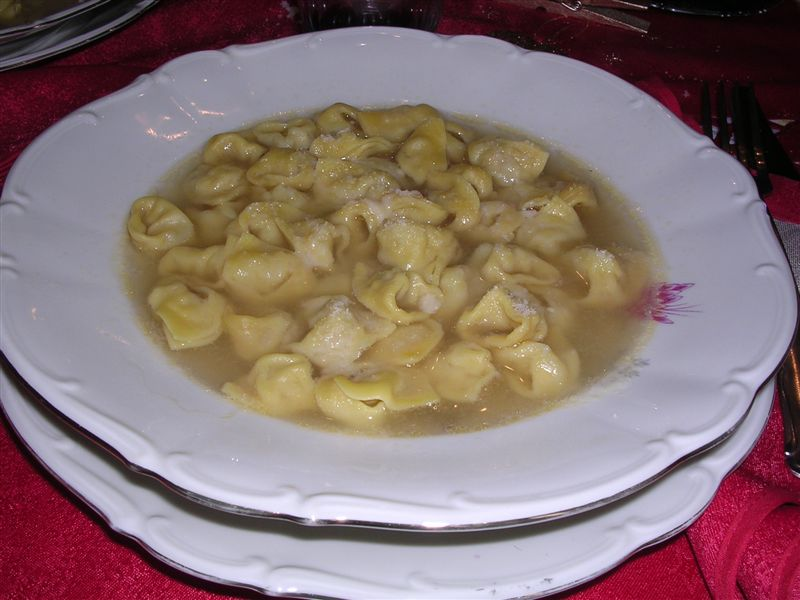 Tortellini in brodo (in broth), the traditional and proper bolognese dish